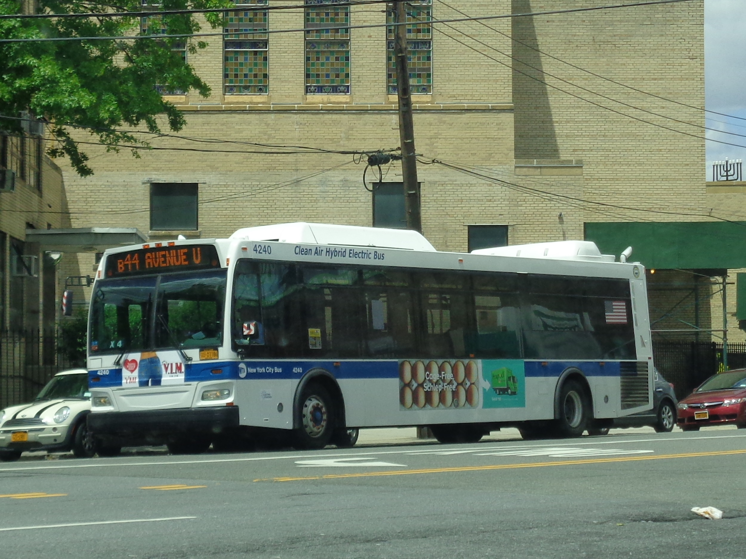 A B44 local bus bound for Avenue U in Sheepshead Bay, at Nostrand Avenue and Marine Parkway, just south of Kings Highway, in Midwood/Marine Park, Brooklyn.